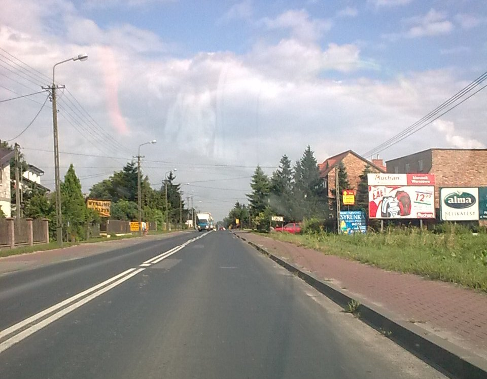 Poland. Lesznowola, Voivodeship road 721